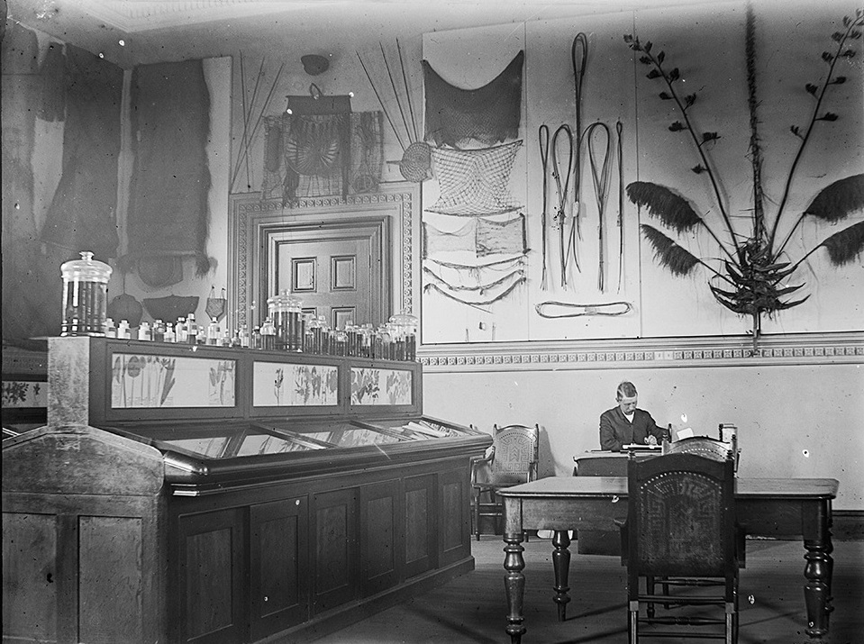 Joseph Henry Maiden (1859-1925) in the National Herbarium of New South Wales, Royal Botanic Gardens Sydney c 1895